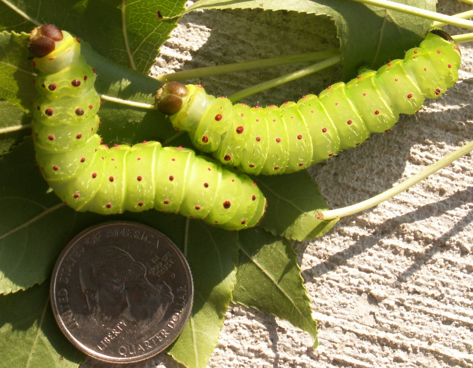 Actias luna 5th instar larvae taken by Shawn Hanrahan. Reared on American Sweetgum.